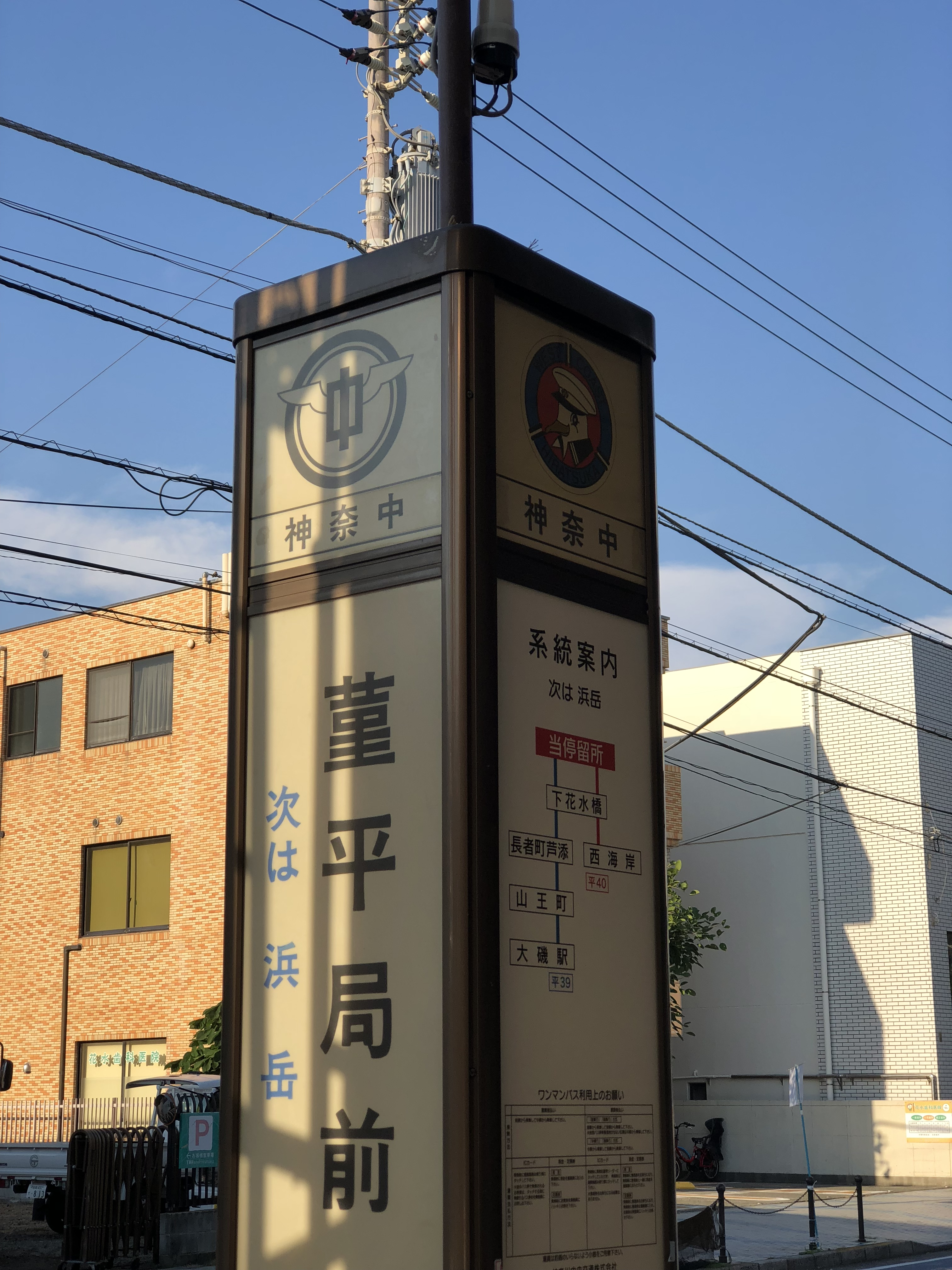 Kanagawa chuo kotsu (KANACHU bus) Sumiredaira-kyoku-mae bus stop, Hiratsuka city, Kanagawa pref. Japan